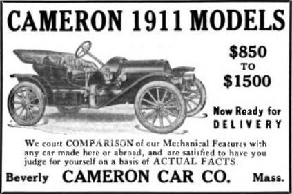 Magazine ad pulled from the Google Books digital repository